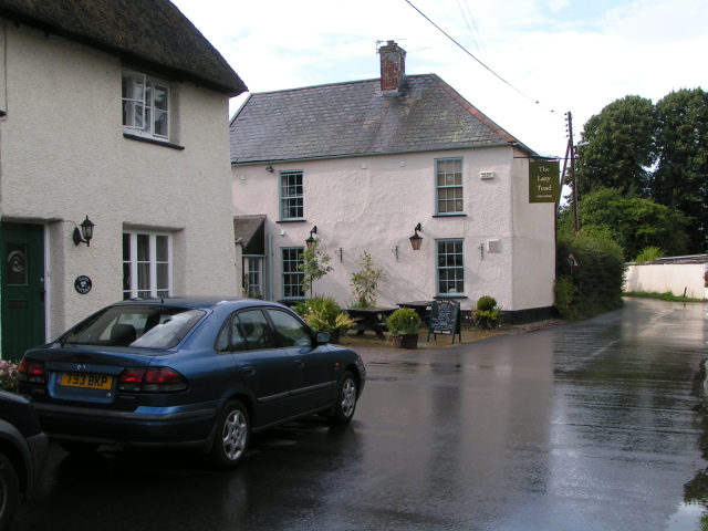 The Lazy Toad - used to be The Agricultural Inn